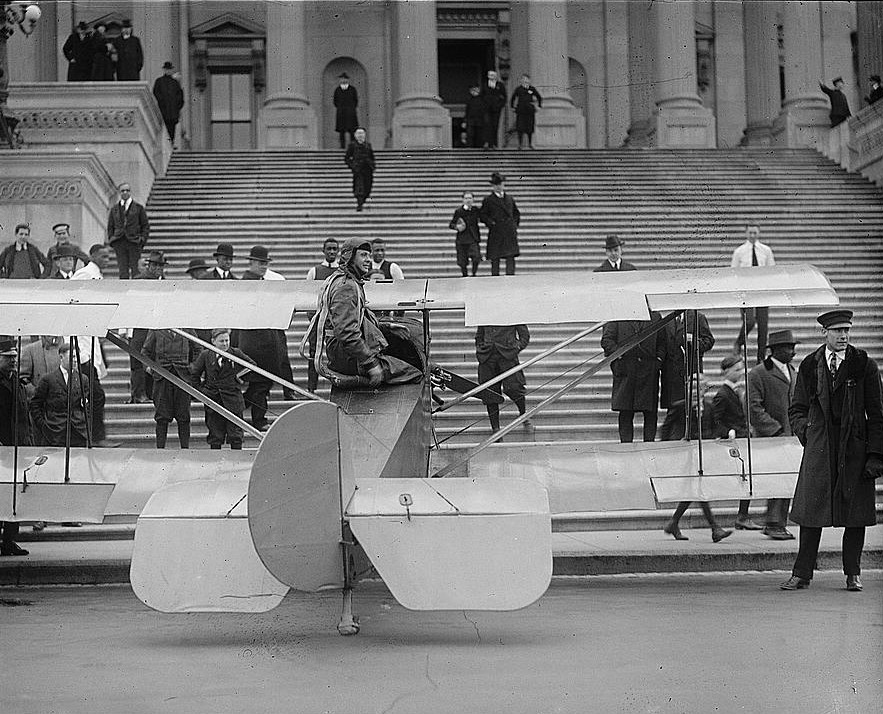 Lawrence Sperry at Capitol [Angered because the government was slow to make payments on his contracts, Lawrence fueled the plane and flew to Washington to strike a telling blow against the bureaucracy. Circling the Capitol at ground level to disrupt Congress, he landed directly on the Capitol steps and stormed into the office of the Assistant Secretary of the Navy. Later he landed in front of the Lincoln Memorial, before striding into the Treasury building to collect his money and flying back home.]